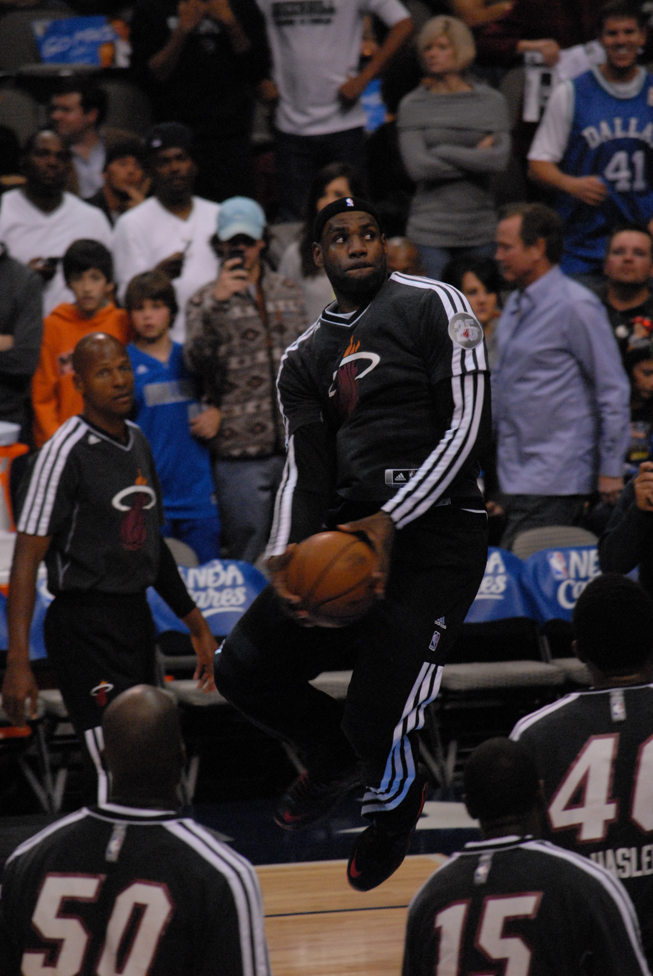 12/20/2012, Dallas Mavericks vs Miami Heat